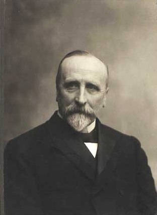 Danish industrialist Sophus Christopher Hauberg (1848-1920), founder of the Titan factory